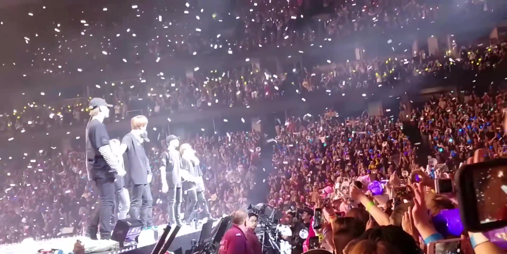 BTS and ARMY during the BTS Live Trilogy Episode III The Wings Tour in Anaheim, 2 April 2017